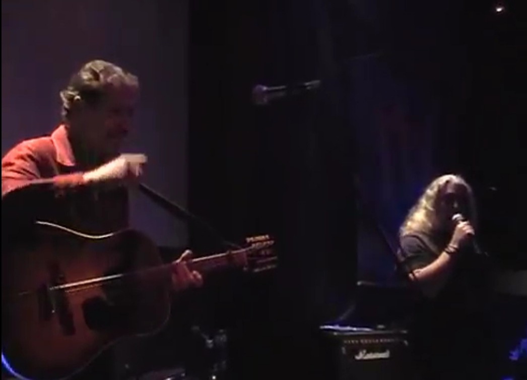 Changes neofolk band